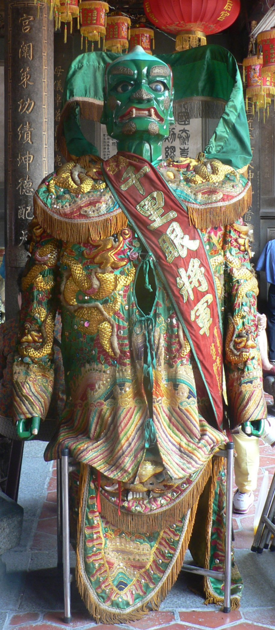 千里眼, the one who sees, helper of Matsu